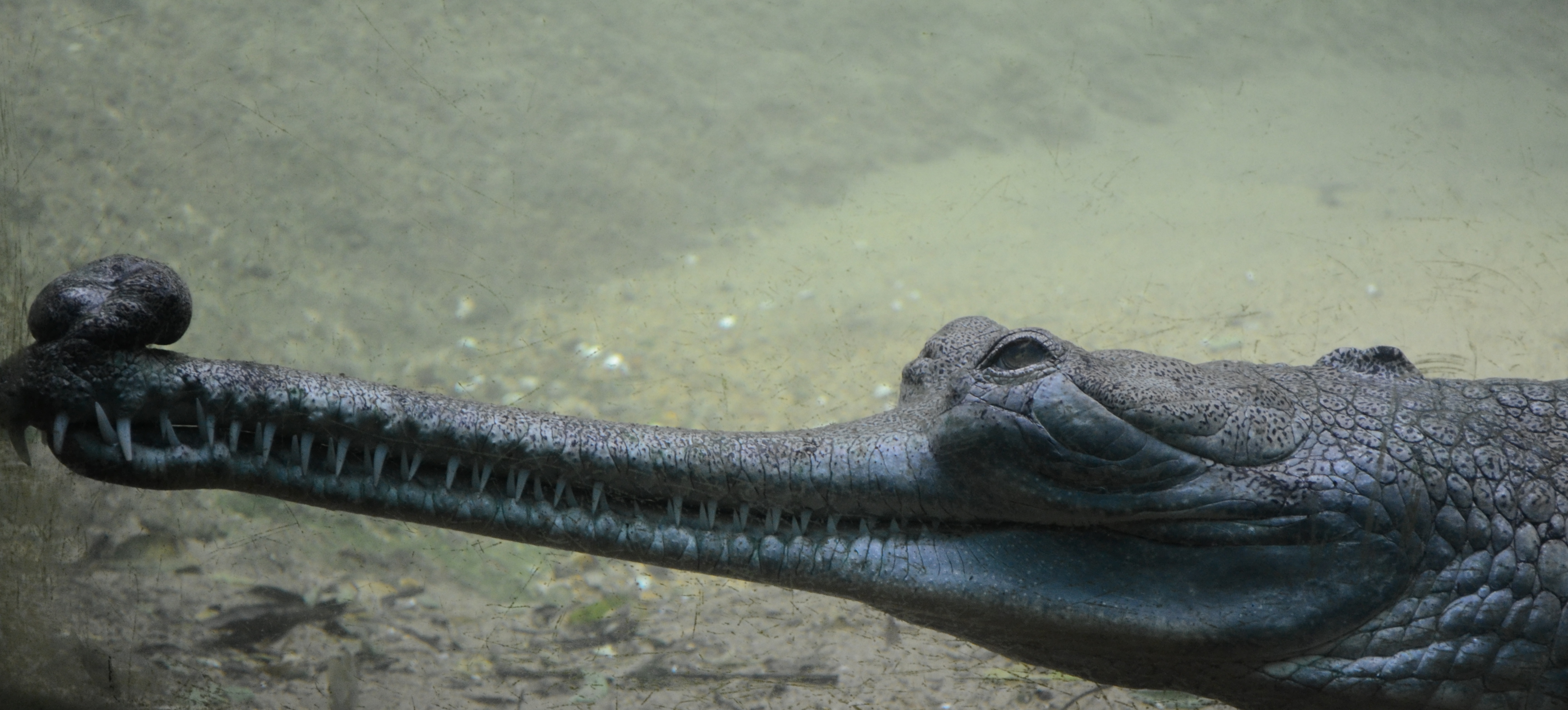 a male gharial kept at the Madras crocodile bank trust. this is a critically endangered species and is found mainly in national chambal sanctuary in Madhya Pradesh, India.